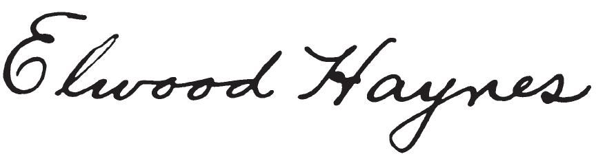 The signature of Elwood Haynes of Kokomo Indiana, an American inventor